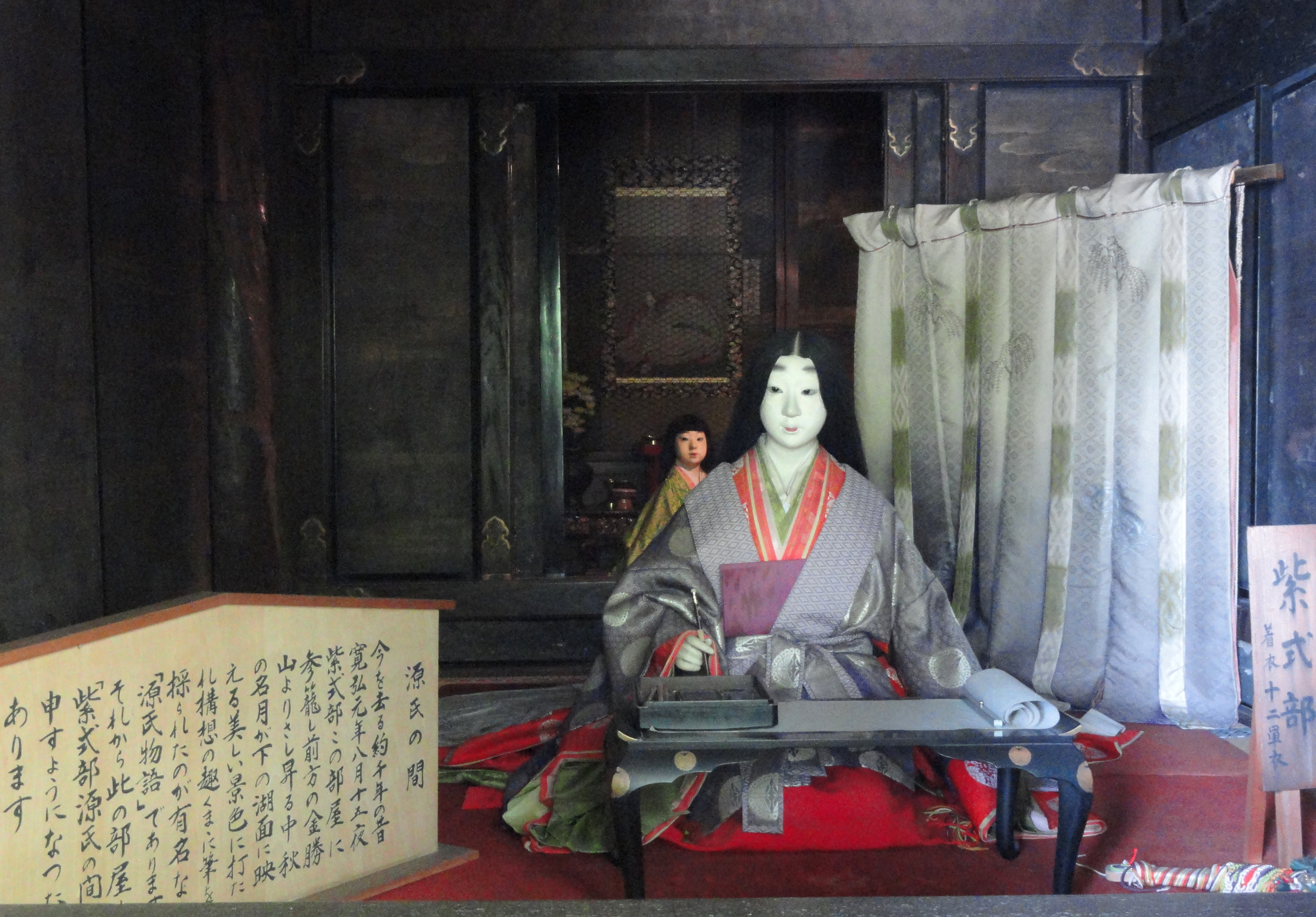 Ishiyamadera (石山寺), Otsu, Shiga, Japan.